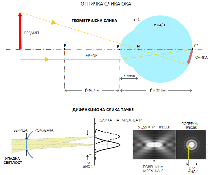 ОПТИЧКА СЛИКА ЉУДСКОГ ОКА